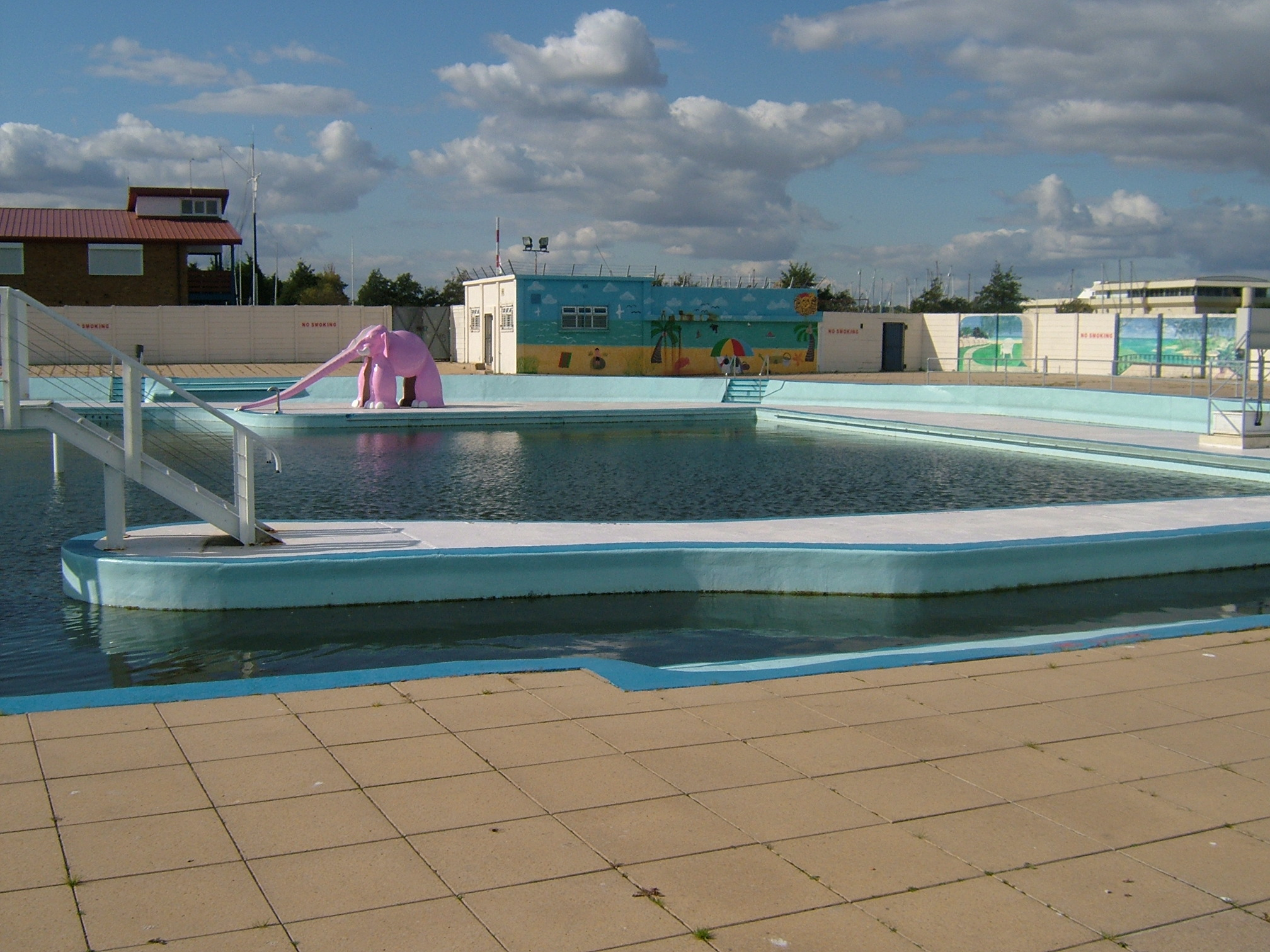 Gillingham Strand is leisure facility on the shore of River medway Estuary, in Gillingham, Medway, England. The open air swimming pool